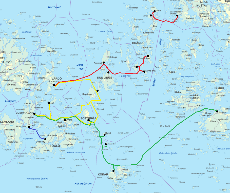 Map of Åland ferry routes (Ålandstrafiken), Finland.